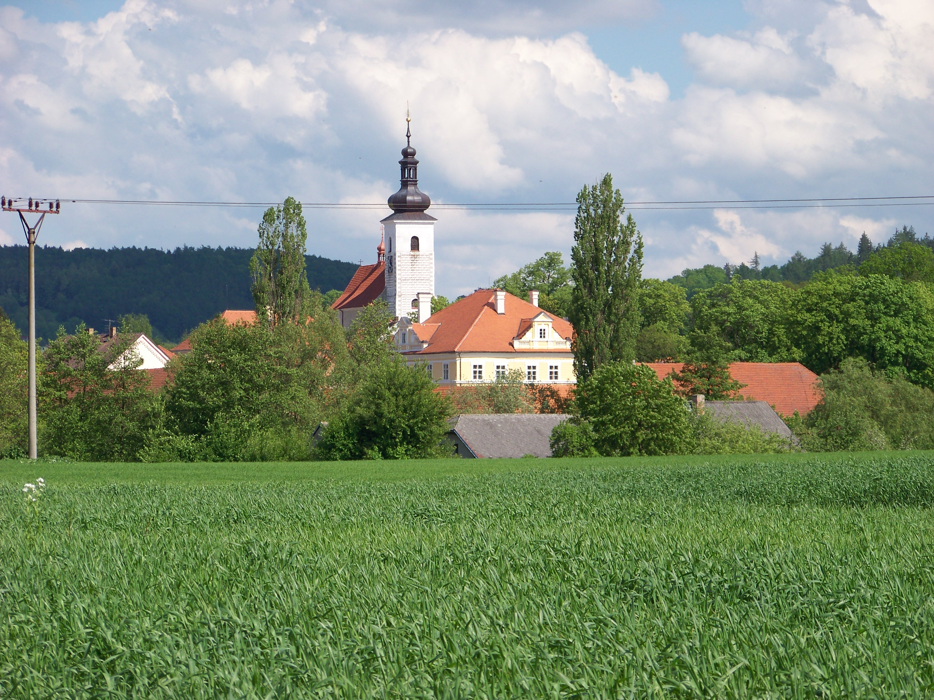 Sedlec-Prčice-Prčice, Příbram District, Central Bohemian Region, the Czech Republic. The castle and Saint Lawrence church.